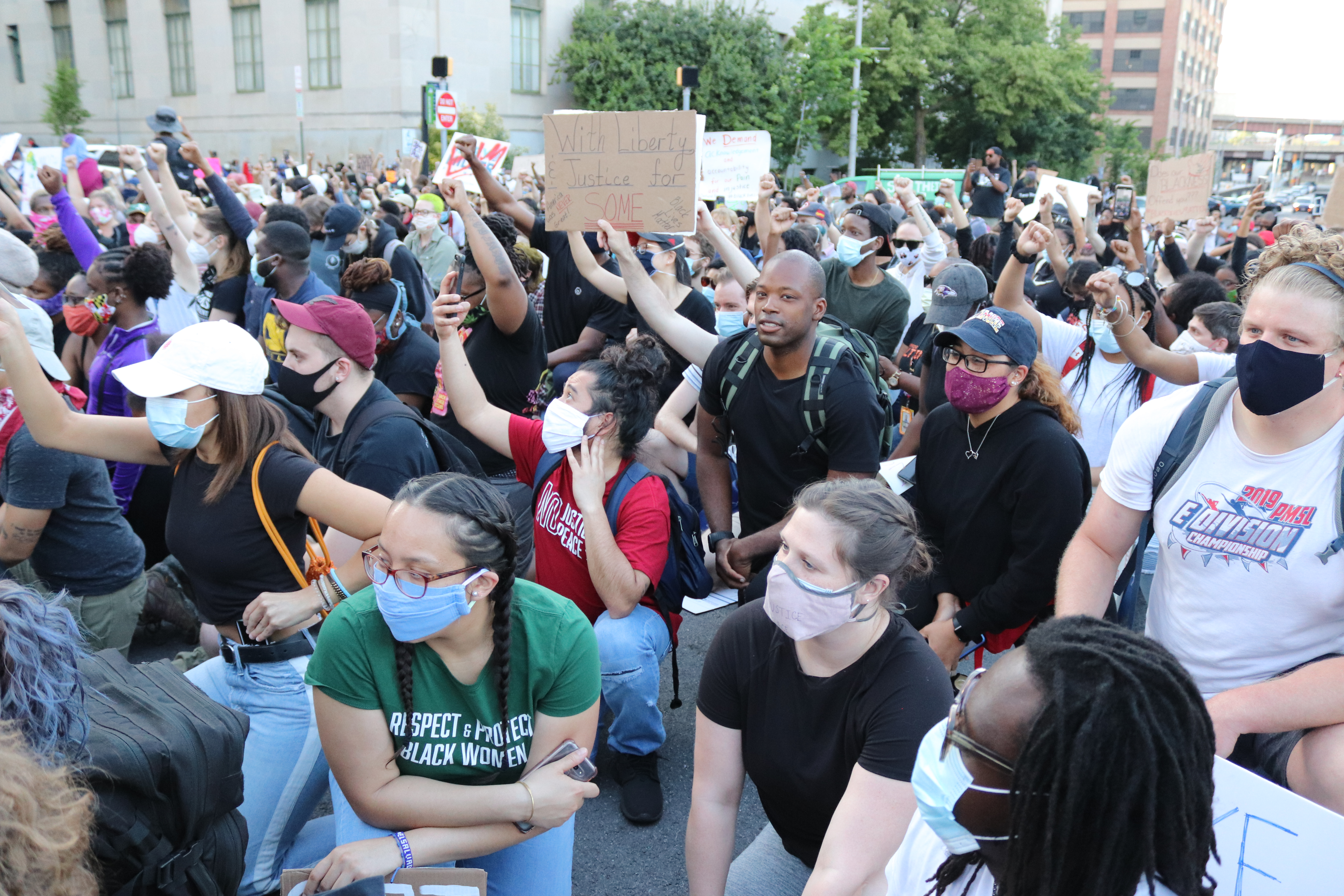 JUSTICE FOR GEORGE FLOYD Youth-led March at City Hall along East Lexington at Holliday Street in Baltimore MD on Monday evening, 1 June 2020 by Elvert Barnes Photography TAKING A KNEE Elvert Barnes Monday, 1 June 2020 JUSTICE FOR GEORGE FLOYD / Baltimore MD docu-project at Elvert Barnes Corona Virus COVID-19 Pandemic Project at Elvert Barnes BMORE 2020 at